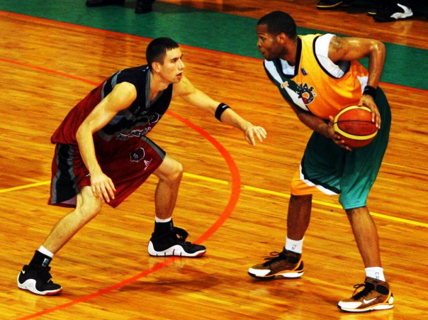 Anthony Fernandez playing defense for the Campeche Bucaneros